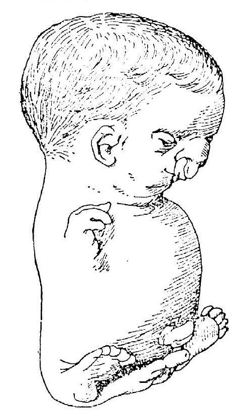 Congenital syndrome described and depicted in Virchow's paper from 1898, probably one of the earliest documentantions of Roberts syndrome